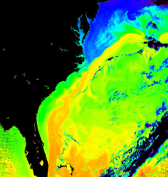 This file is in the public domain because it was created by NASA. NASA copyright policy states that "NASA material is not protected by copyright unless noted". (NASA copyright policy page or JPL Image Use Polic